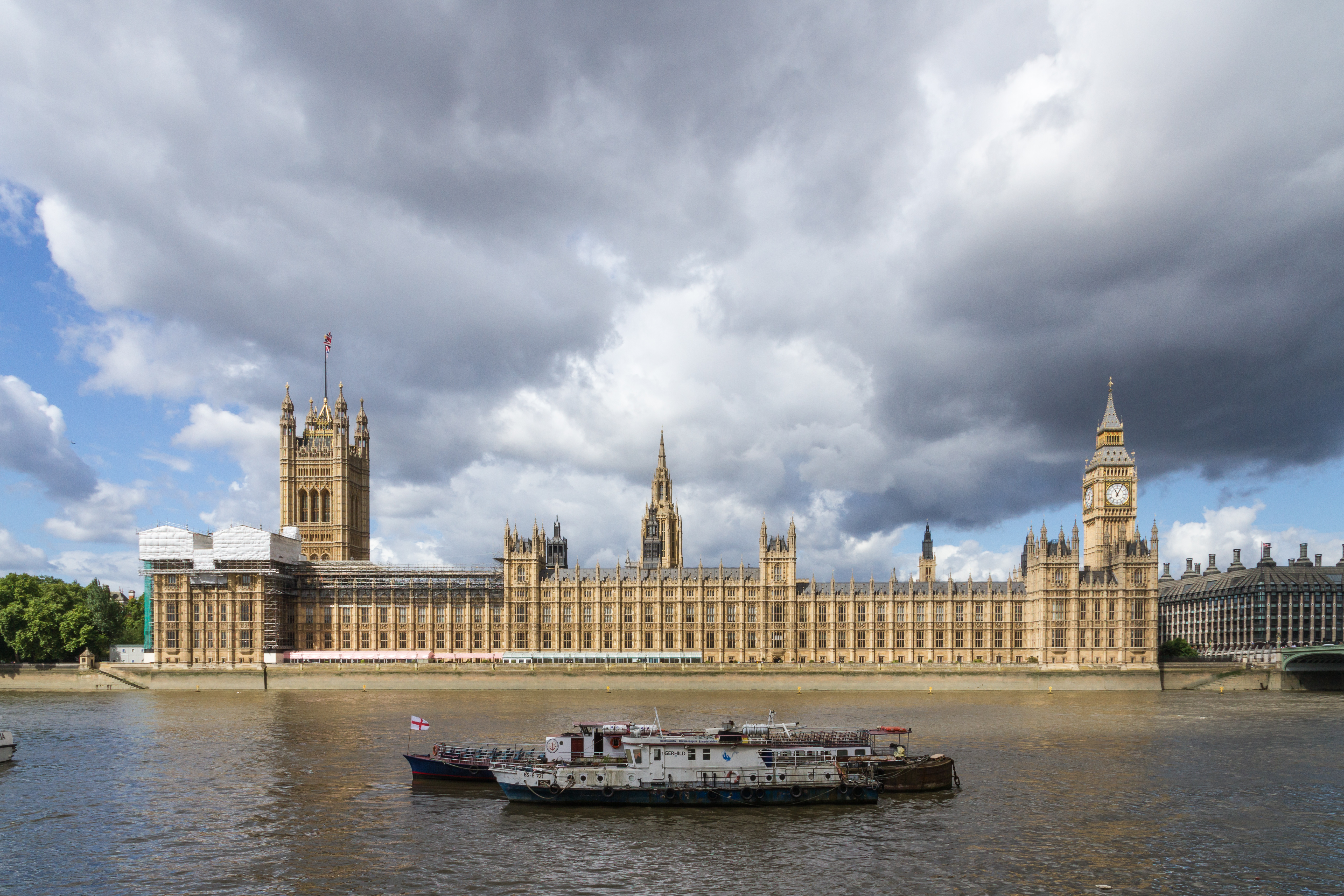 Palace of Westminster